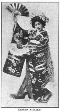 Kimura Komako printed in "The Women Citizen" alongside an article in 1917